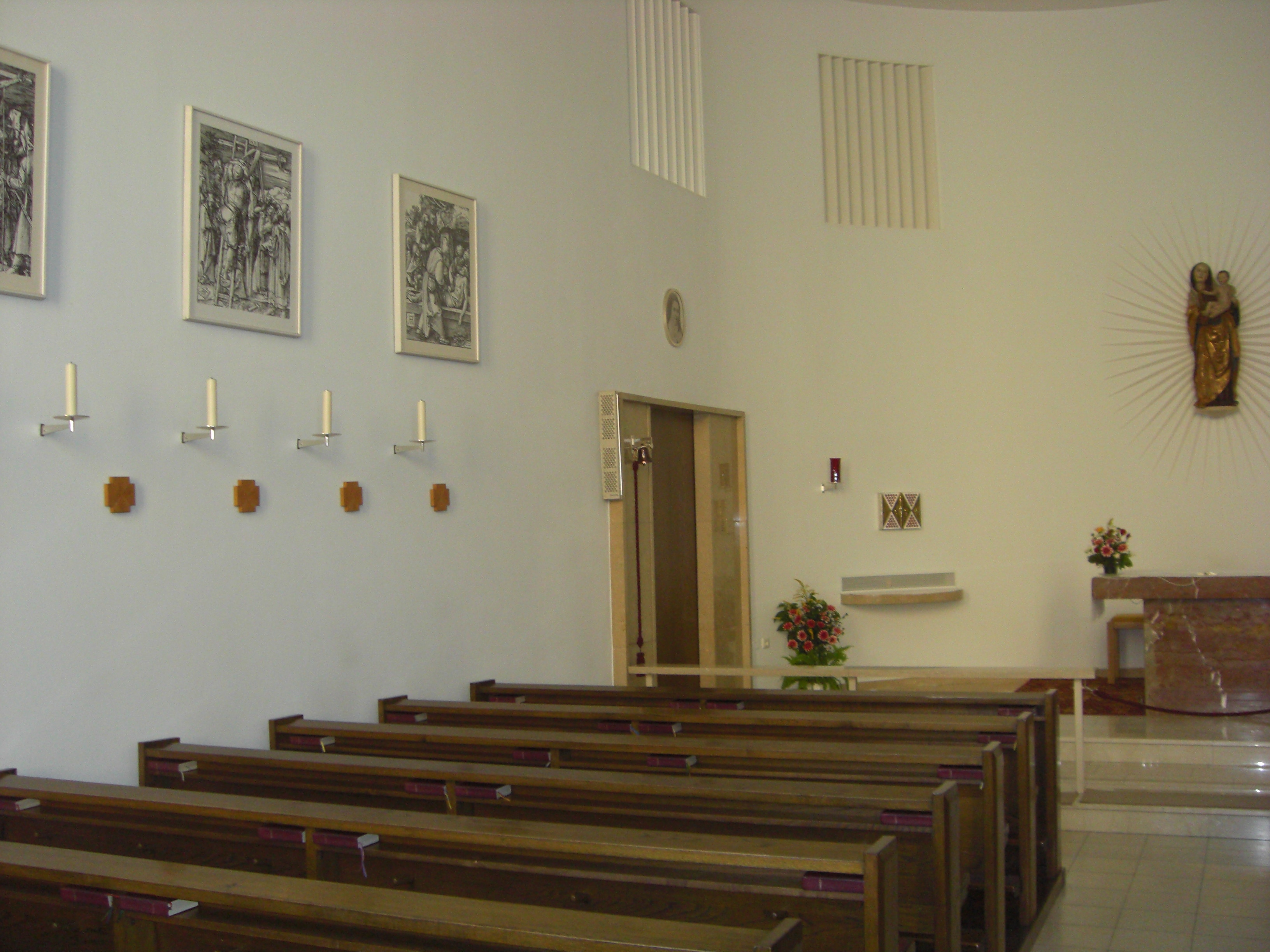 Baumeister Franz König-Hollerwöger